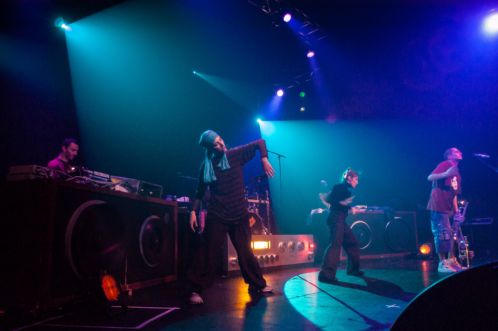 Le Peuple de l'Herbe, Lyon 2005